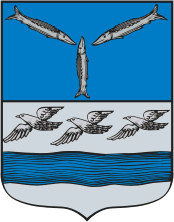 Atkarsk (Saratov oblast), coat of arms (1780)